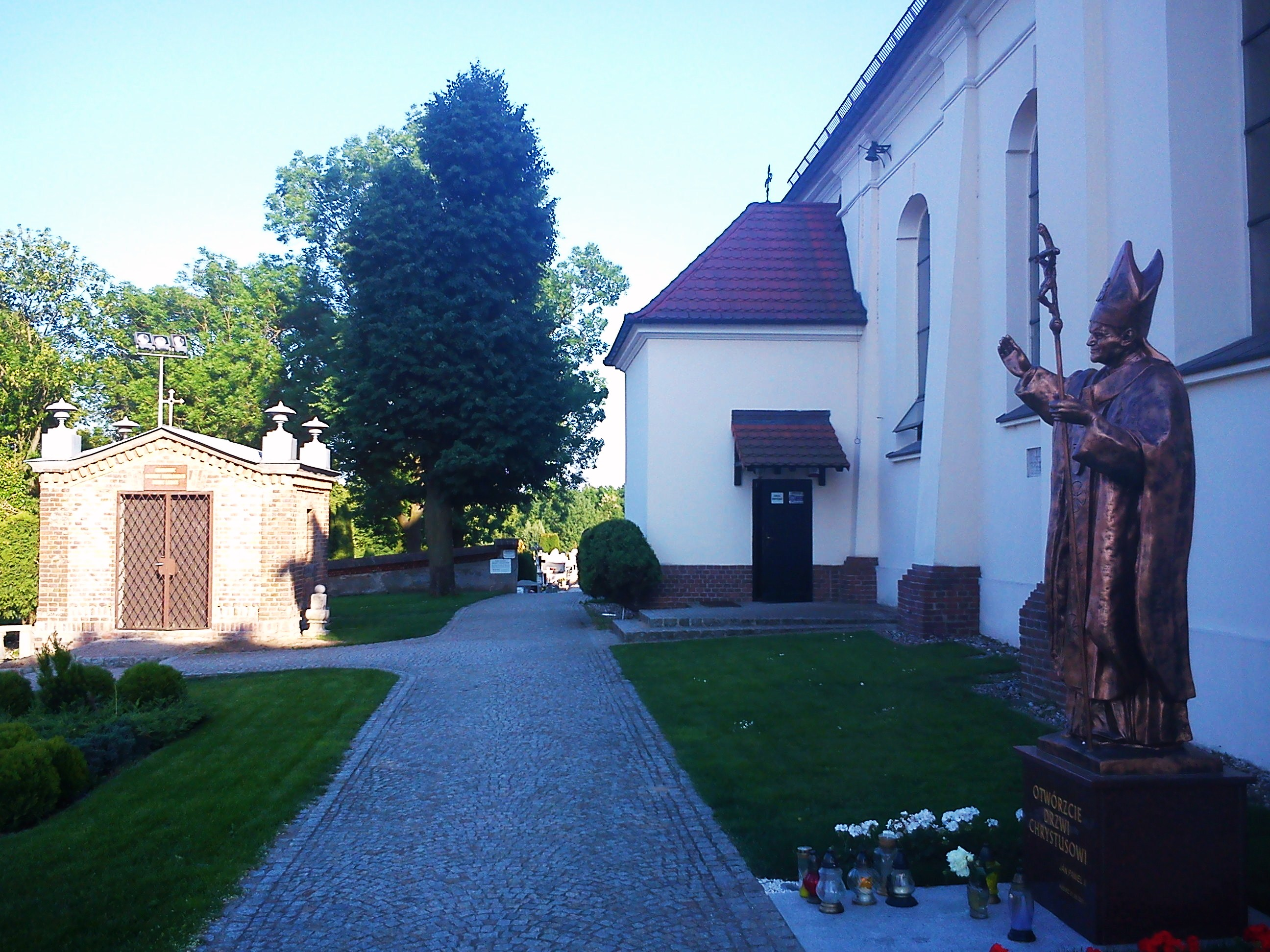 Kiekrz Distr. in Poznan, Church and JPII Monument.